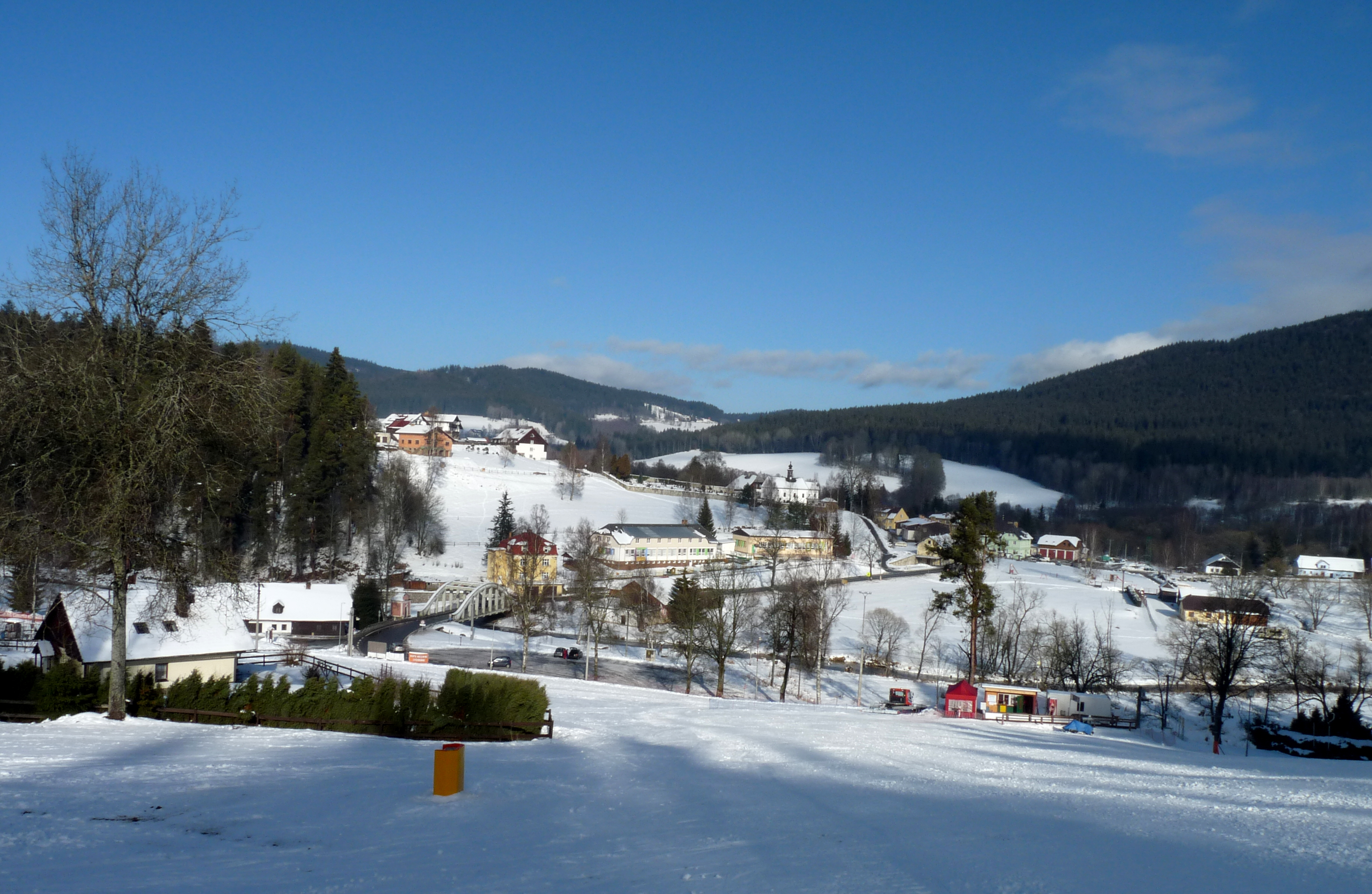 Village of Horní Vltavice, Prachatice District, South Bohemian Region, Czech Republic, as seen from the skiing area.